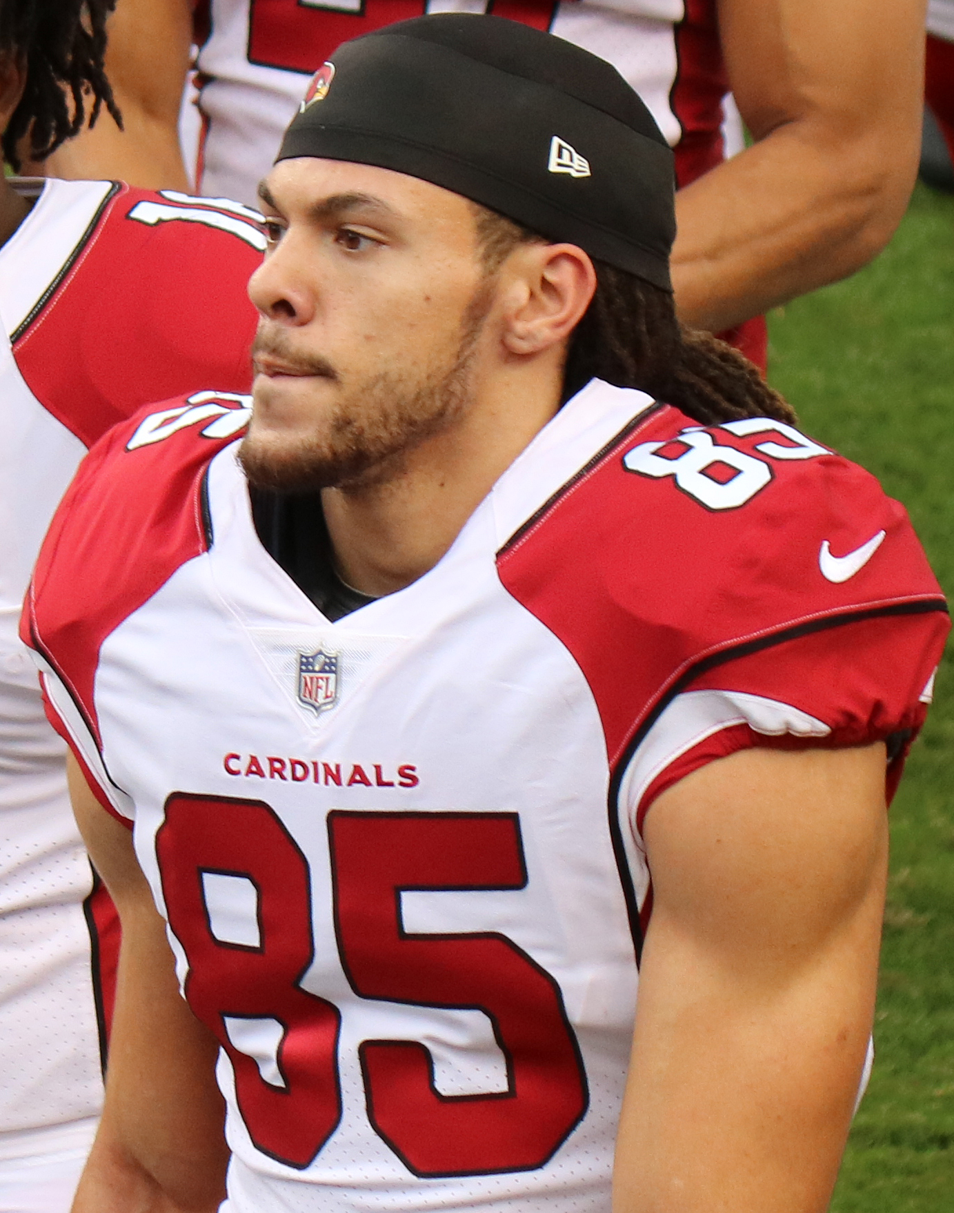 Krishawn Hogan, a player on the National Football League.